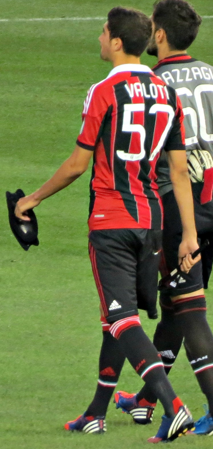 Taken by goatling with a Canon PowerShot SX40 HS camera. Mattia Valoti of A.C. Milan in the 2012 World Football Challenge.